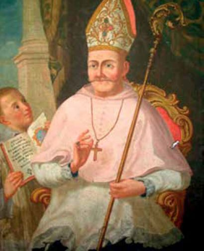 Portrait of bishop "fra Grgo Ilić (Ilijić) - Varešanin", apostolic vicar (1798-1813) Technique: oil on canvas, 69 x 89 cm. Kept: Museum of the Franciscan monastery St. Catharine, Kreševo, Bosnia and Herzegovina